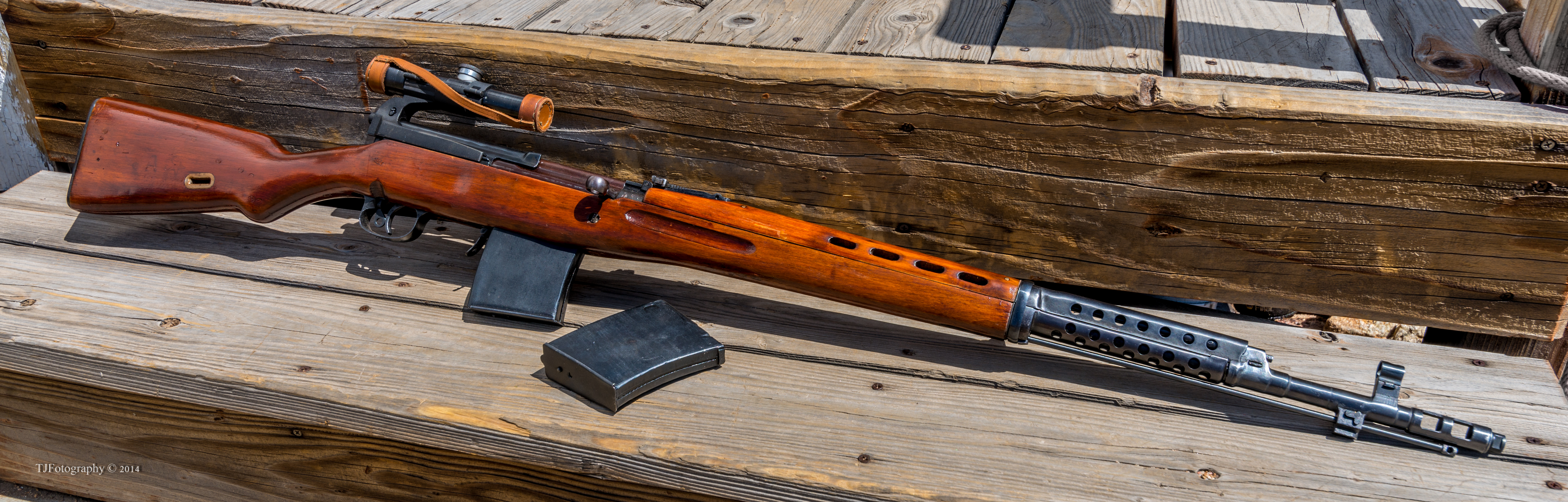 A reference image to an Original 1941 Tula SVT-40. It has been Arsenal Refurbished with a Naval AVT stock and Plum Bolt.